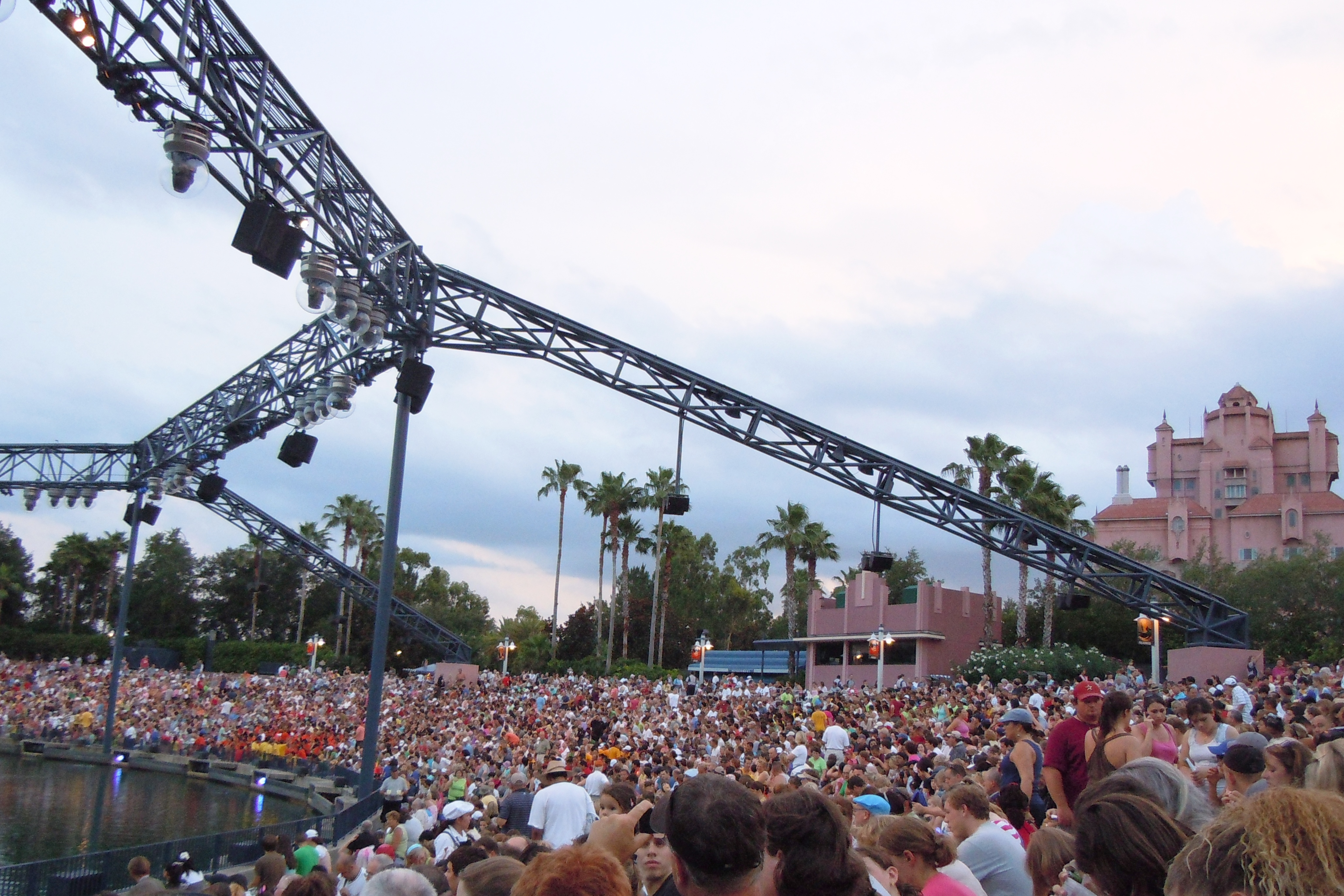 The rear view of the Hollywood Hills Amphitheather at Disney's Hollywood Studios at the Walt Disney World Resort in Florida, USA.